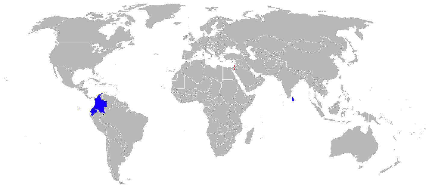 IAI Kfir Operators 2010